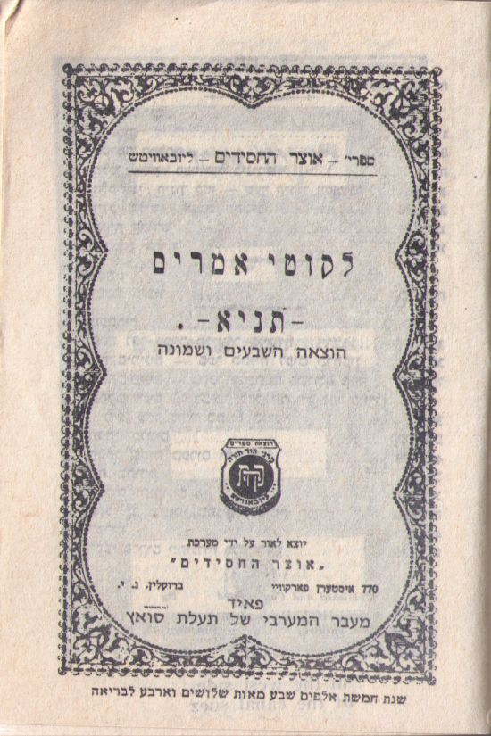 Tanya printed in Faid